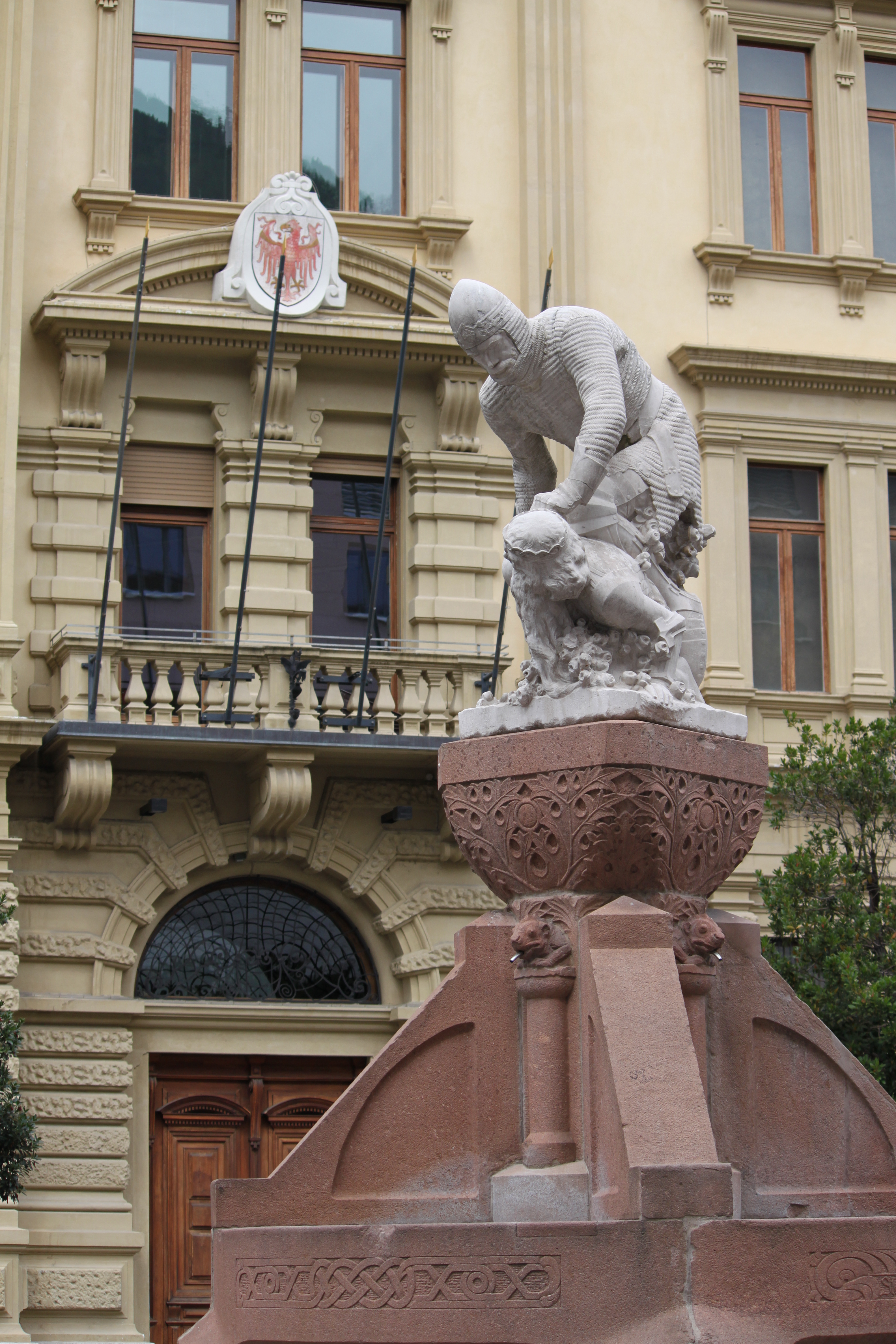 Laurin monument from Andreas Kompatscher in Bozen Bolzano South Tyrol